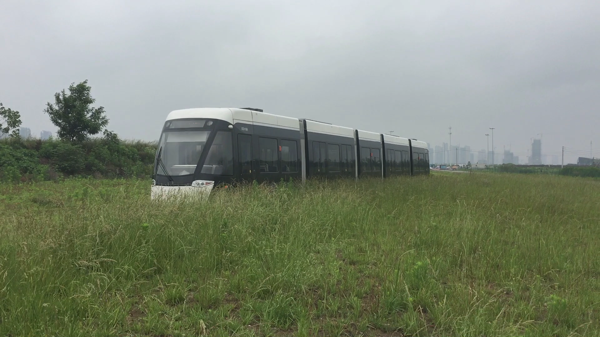 Bombardier’s Primove Tram, beginning its route, Nanjing, China